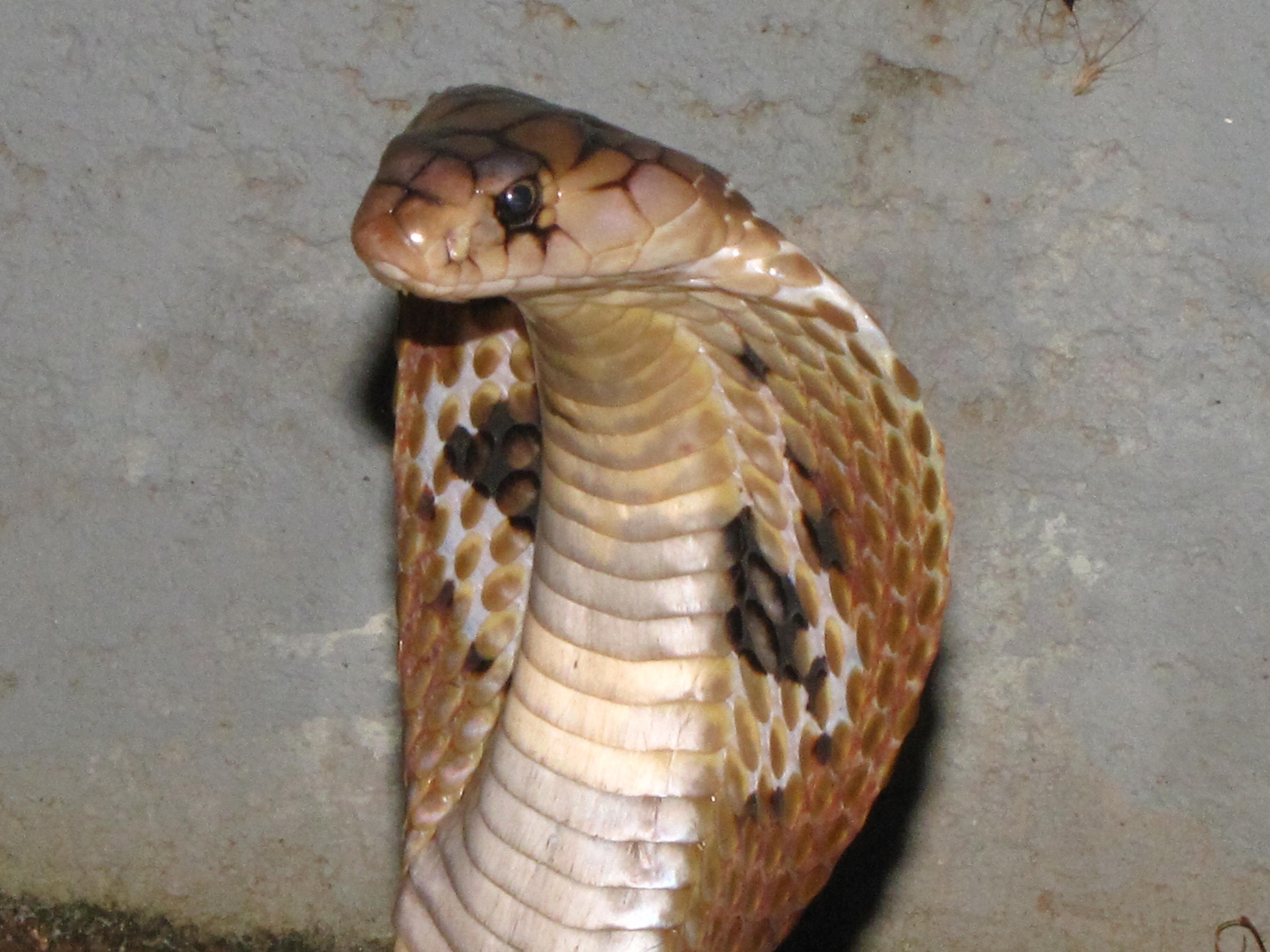 Naja naja in strike posture